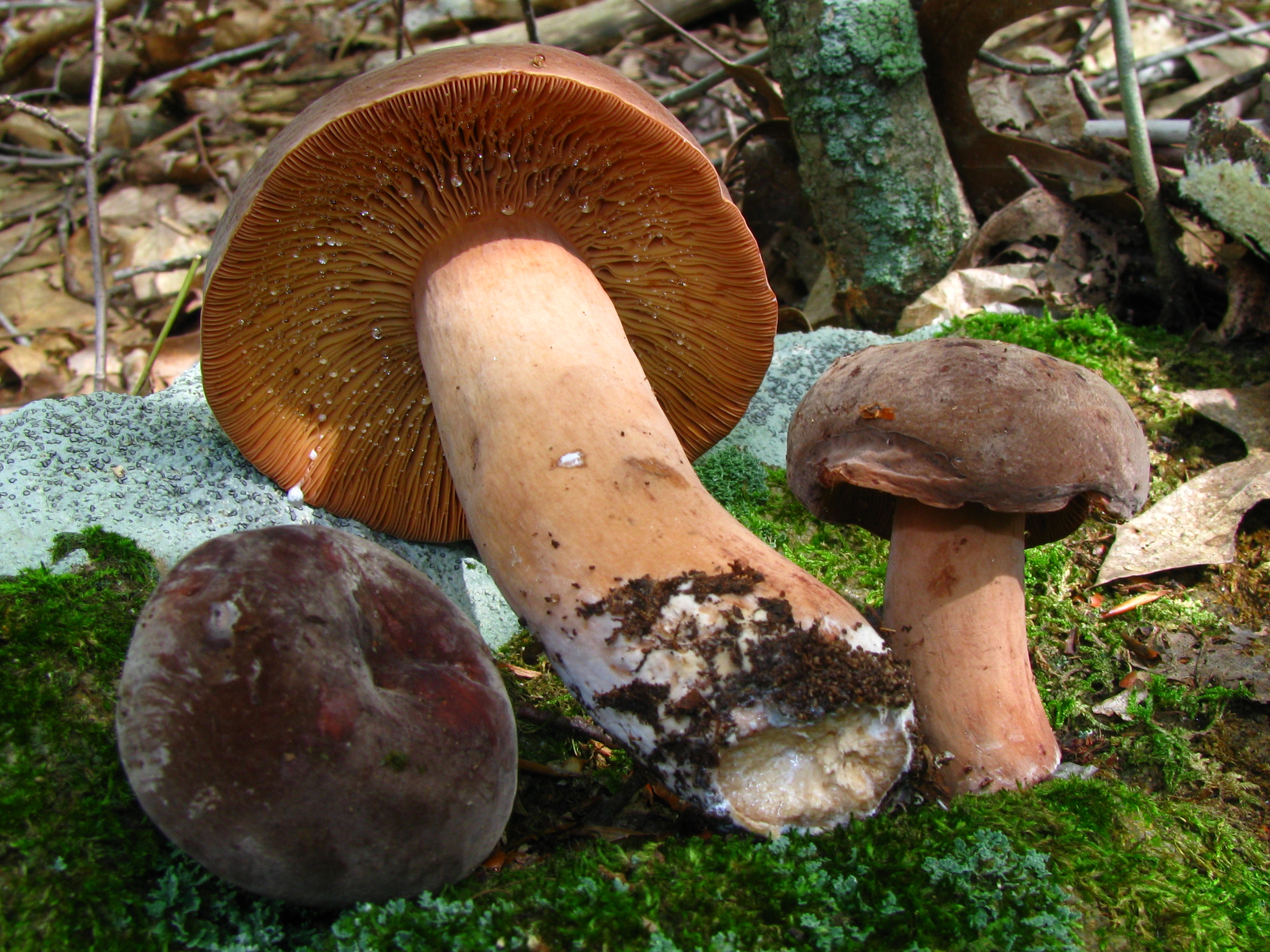 The milk mushroom Lactarius corrugis Peck. Photographed in Strouds Run State Park, Athens, Ohio, USA.